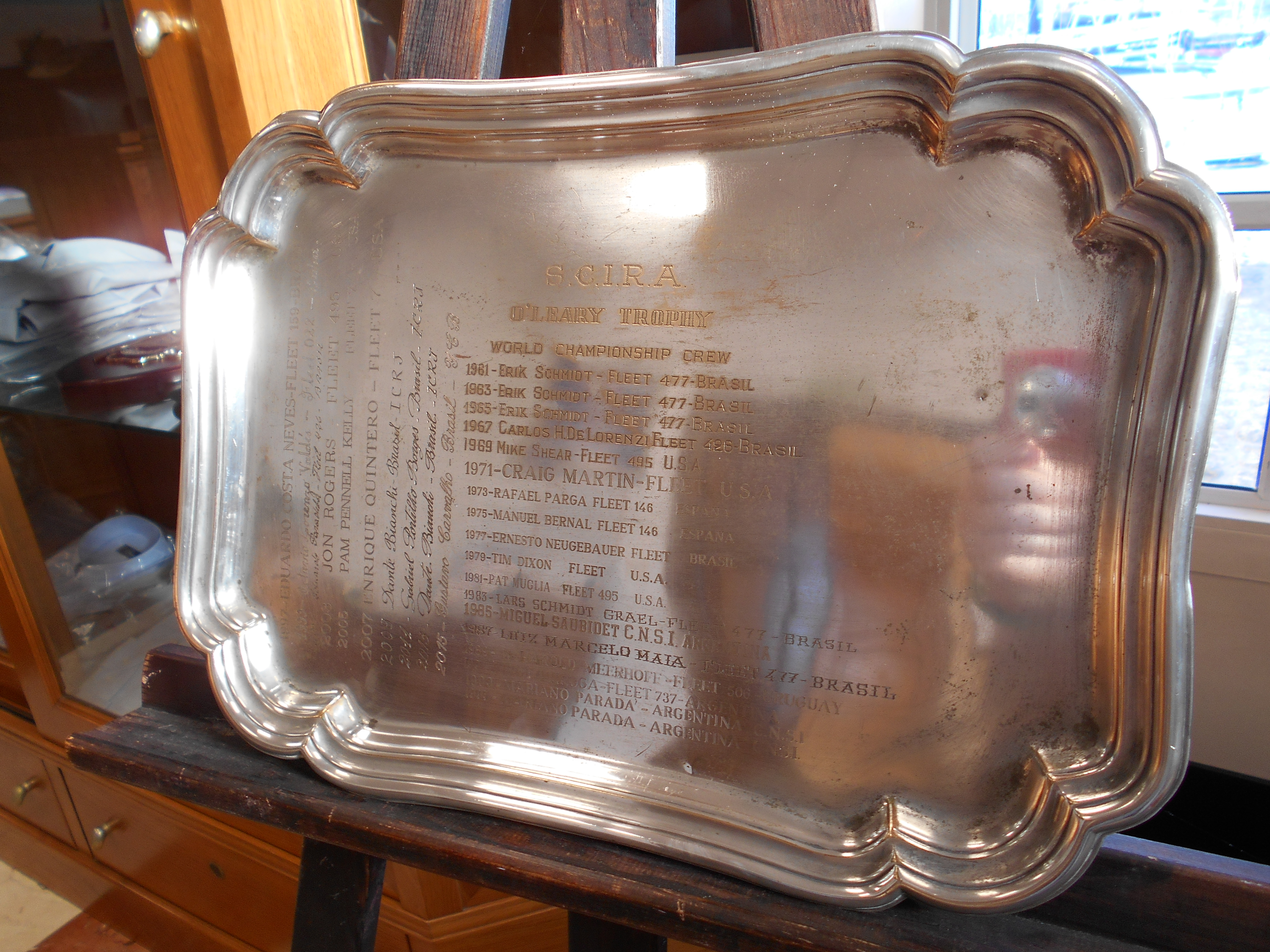 O’Leary Trophy